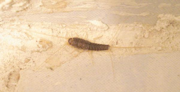 This is a Zygentoma of the subfamily Ctenolepismatinae, almost certainly genus Ctenolepisma, possibly but quite uncertain something along the lines of Ctenolepisma lineata?